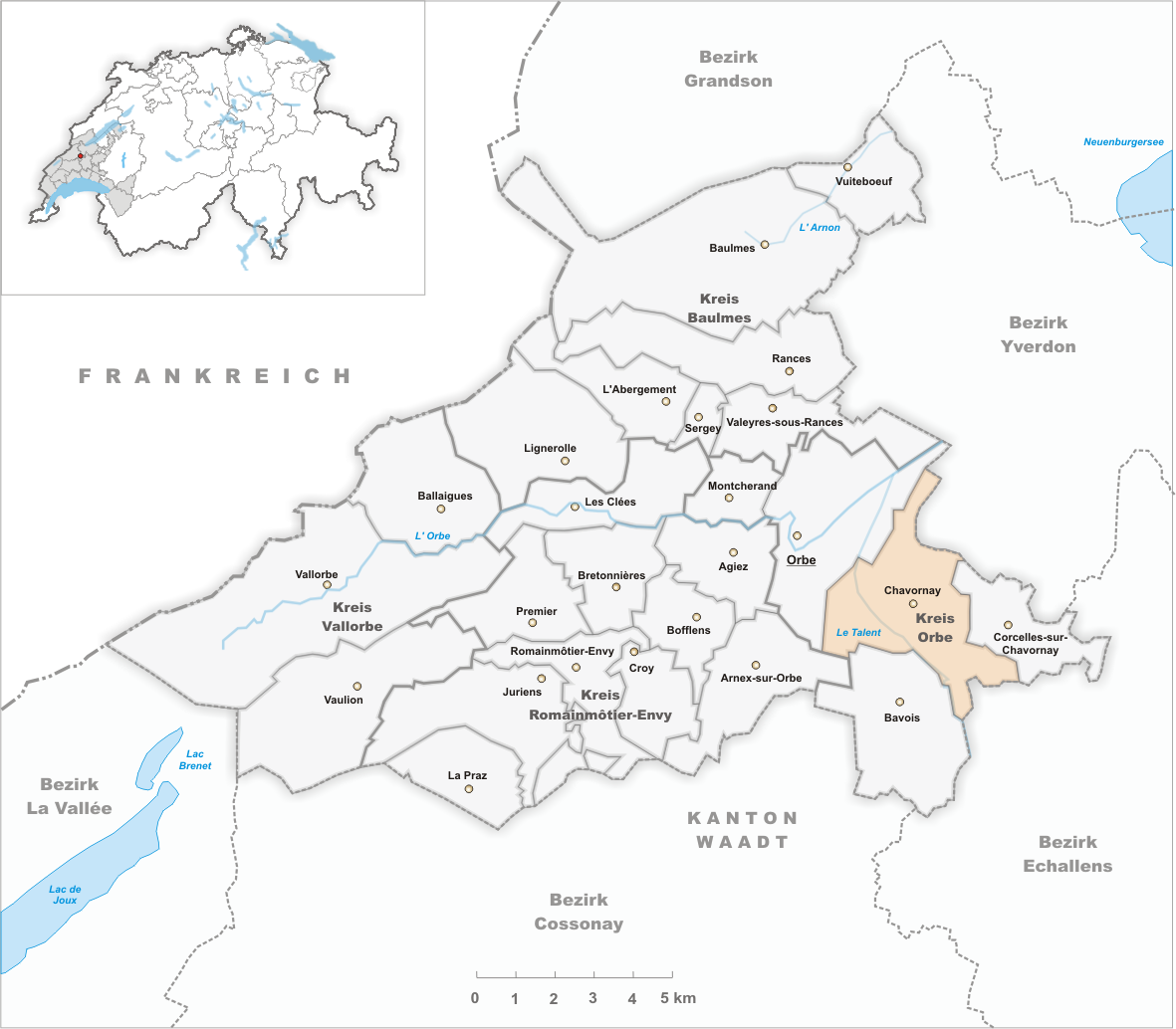 Municipality Chavornay